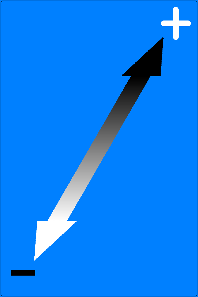 Pattern of polarity +/- in magnetism and in the Schelling's philosophy: polarity as power.